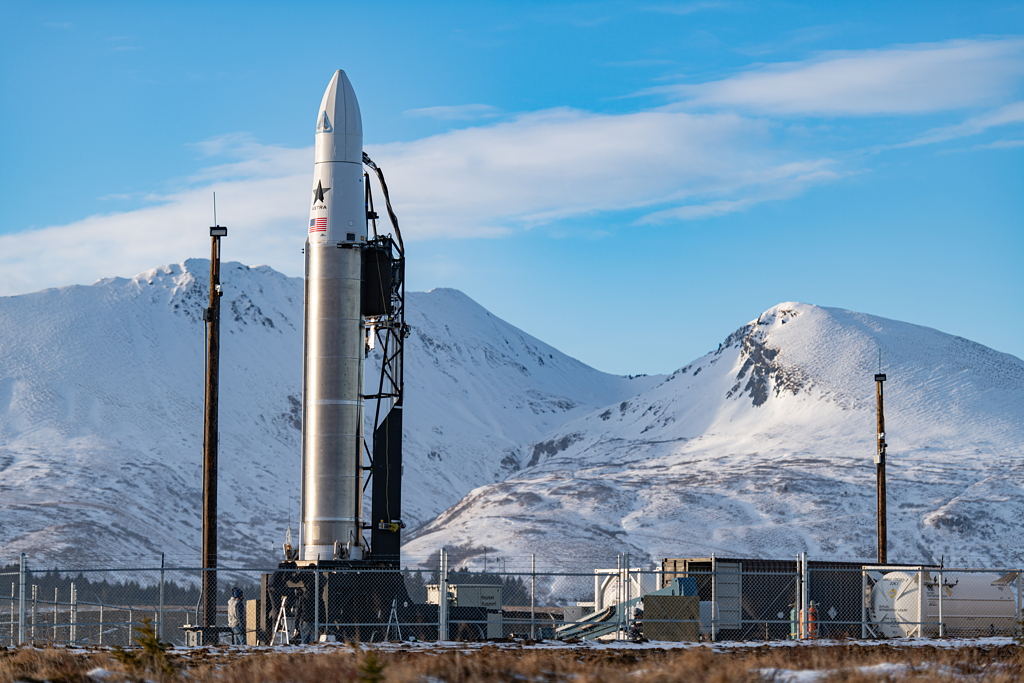 Launch campaign of the first Rocket 3.0 of Astra Space.